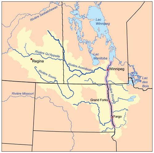 Version française de cette carte: Redrivernorthmap.png — de Red River of the North.